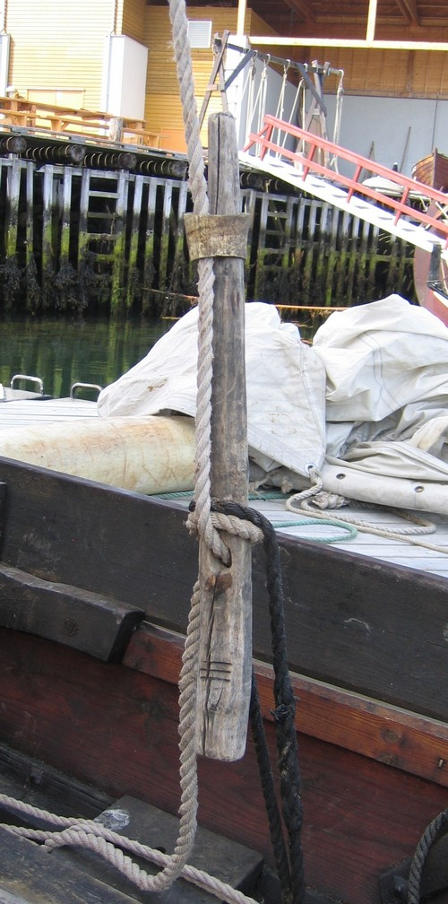 A Vantnål used in old norwegian boats to tighten th schroud